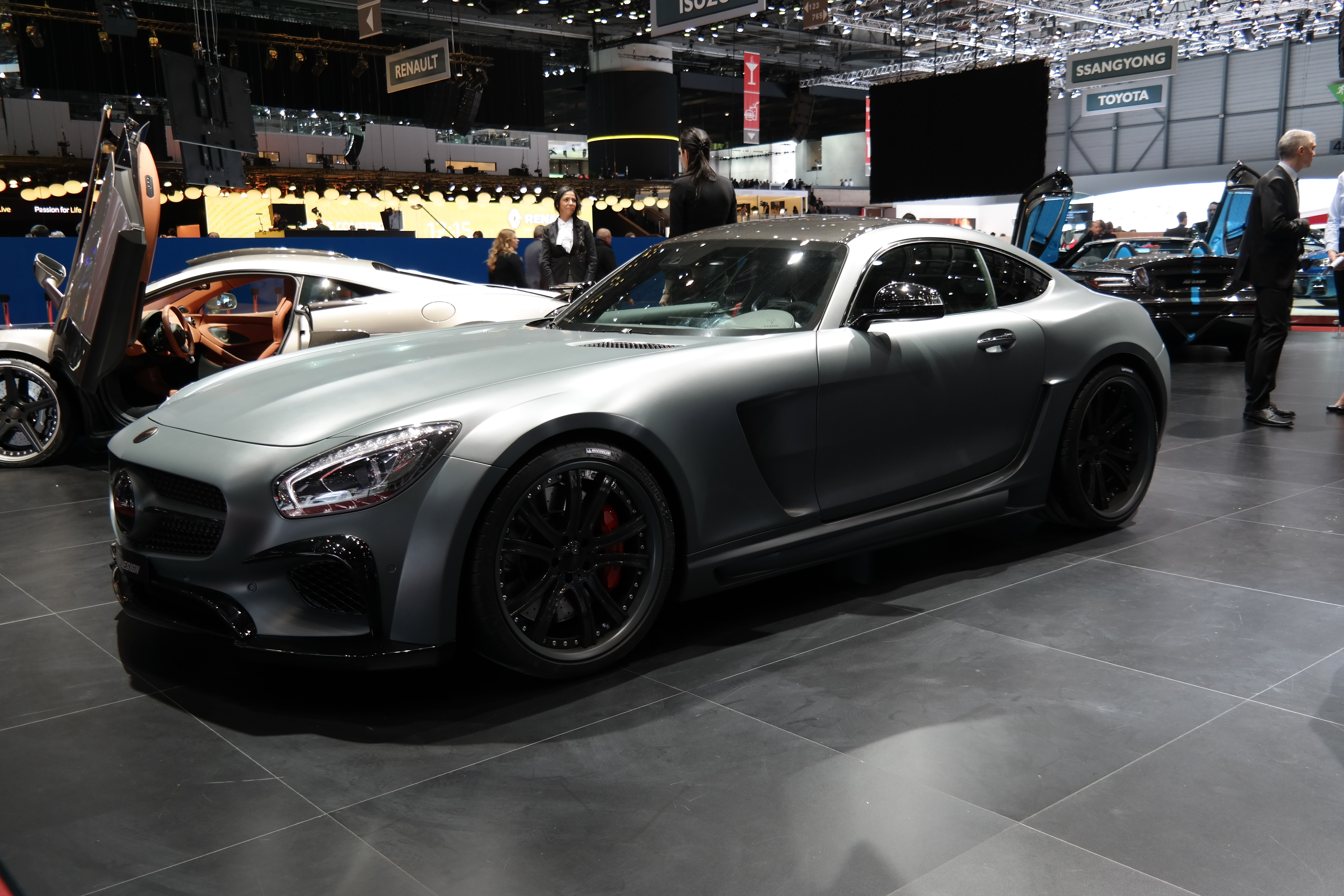 Geneva Motor Show 2017 (photo taken on the first press day)